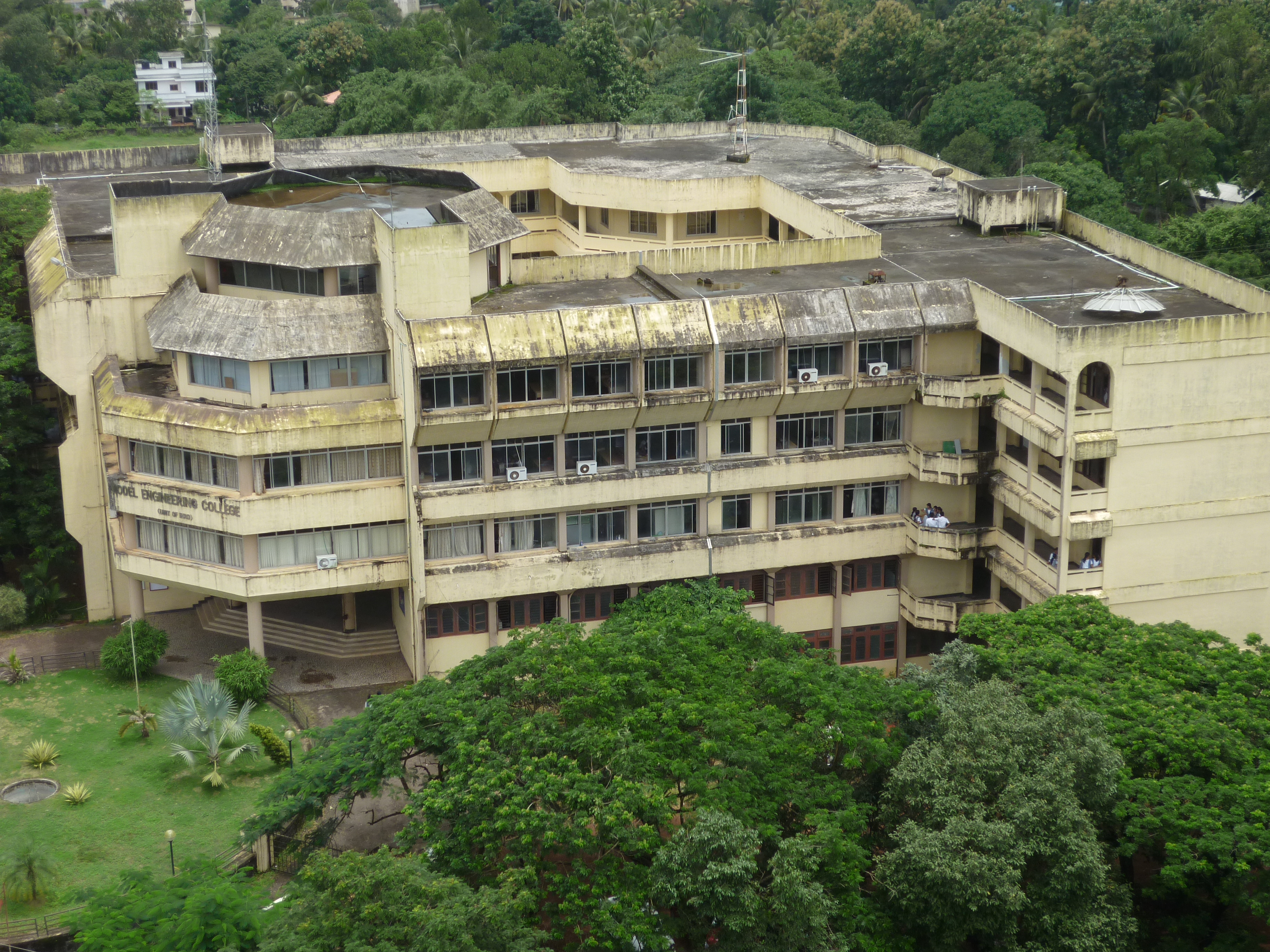 Model Engineering College Kochi Top view 01